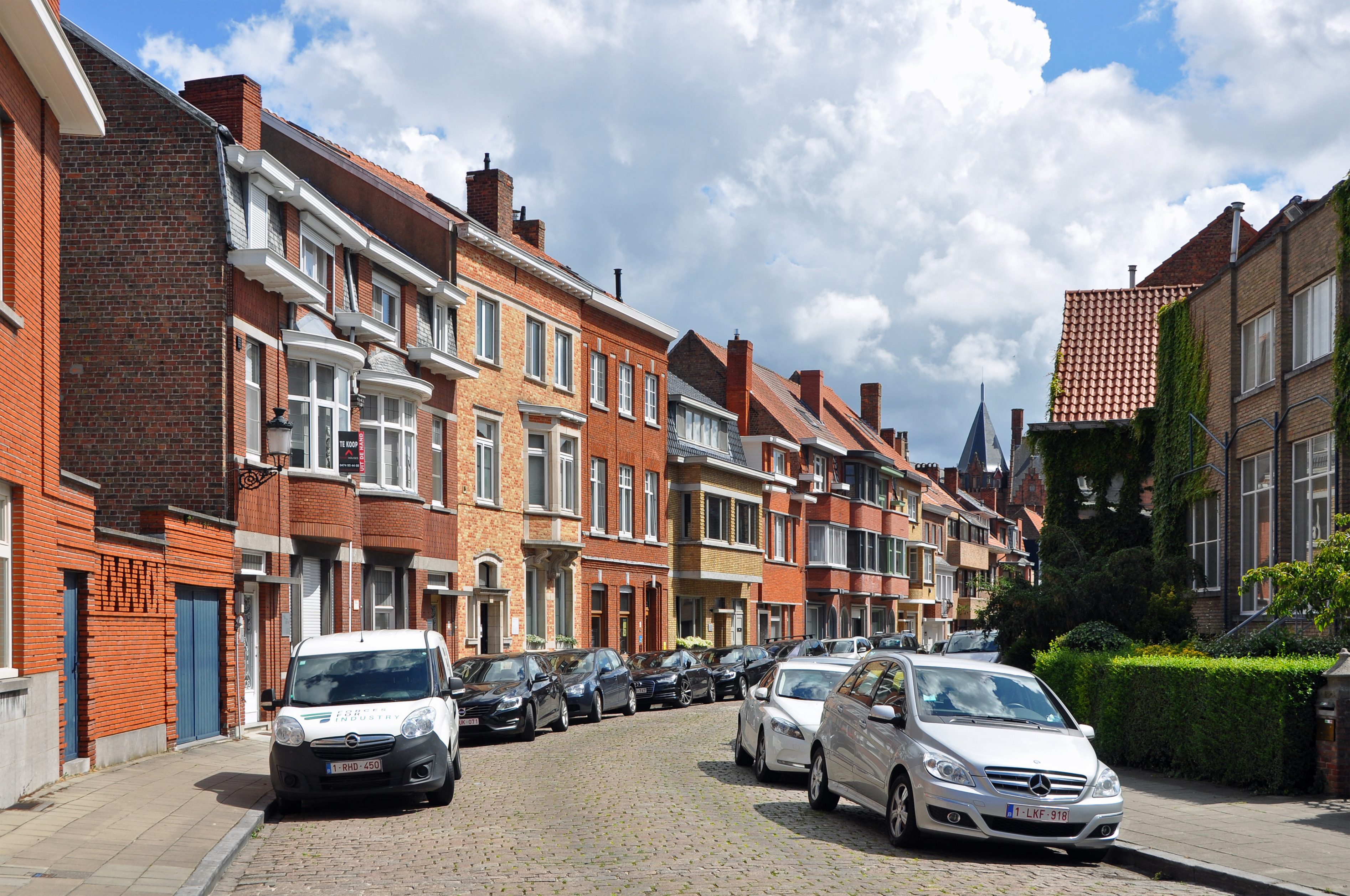 Bruges (Belgium): Elf-Julistraat